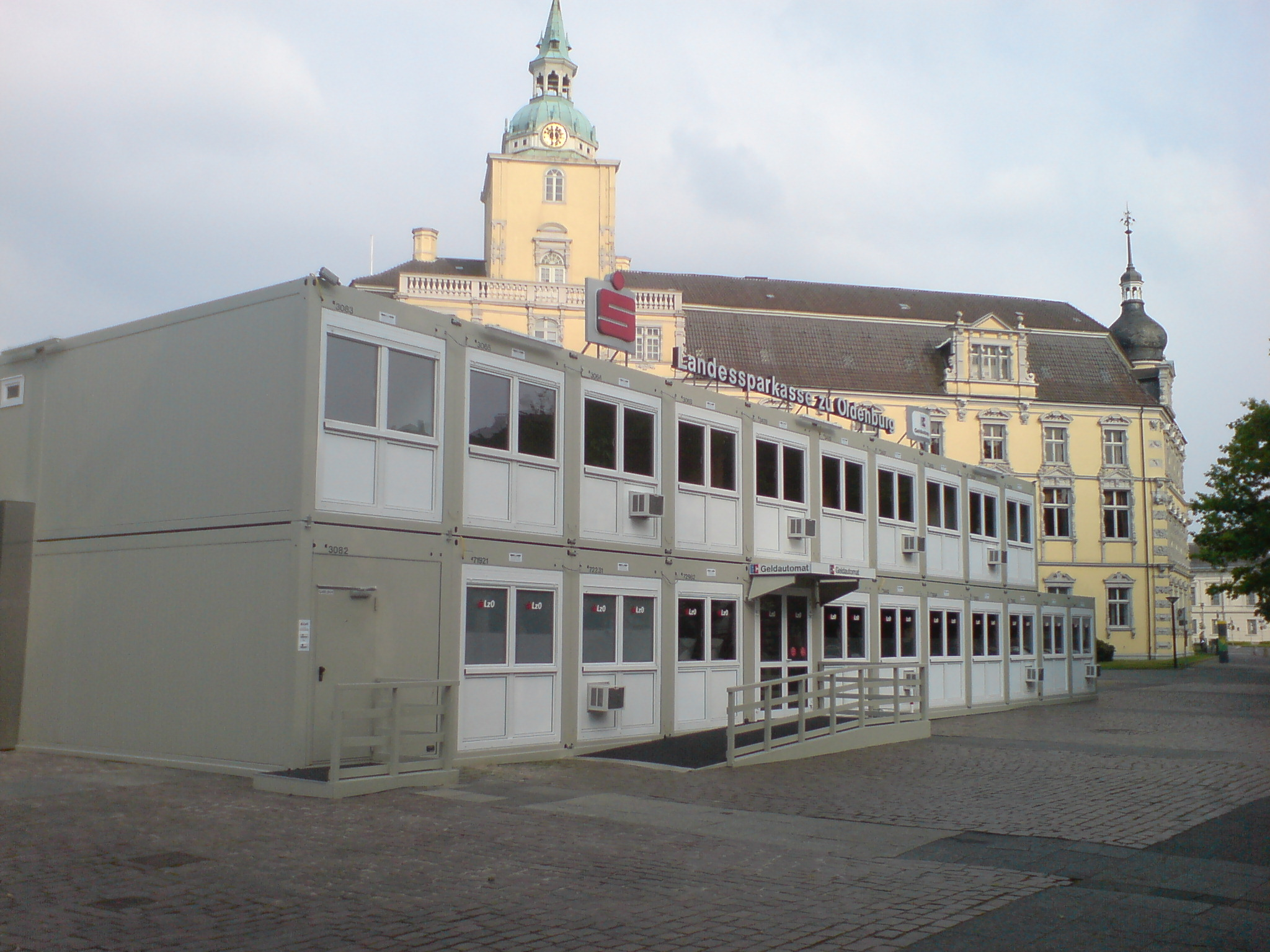 Temporary branch of the bank Landessparkasse zu Oldenburg on the place Schloßplatz in the city of Oldenburg in Lower Saxony, Germany.